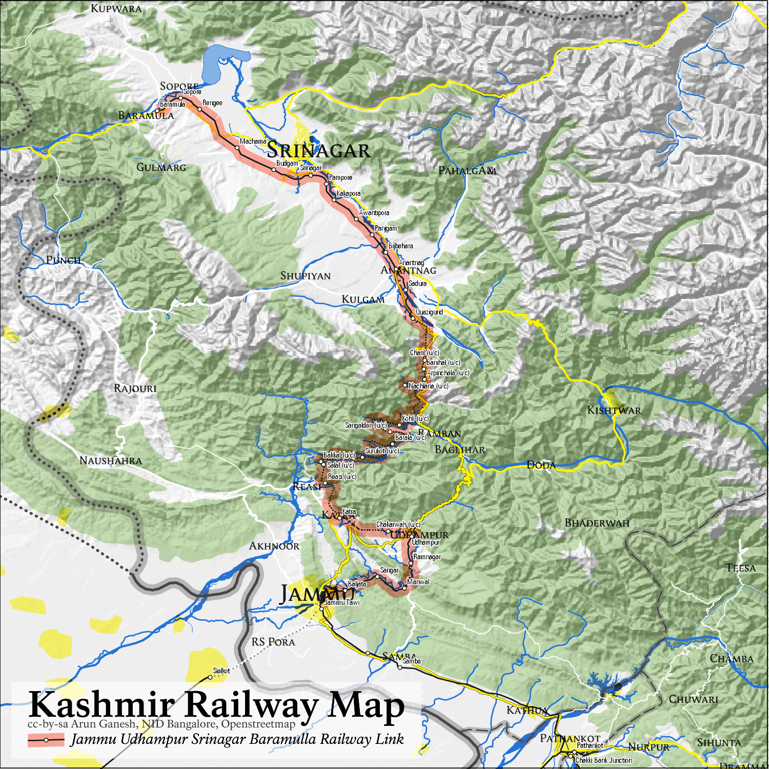 Route map of the Jammu Udhampur Srinagar Baramulla Railway Link Project. The section between Udhampur and Qazigund is under construction.